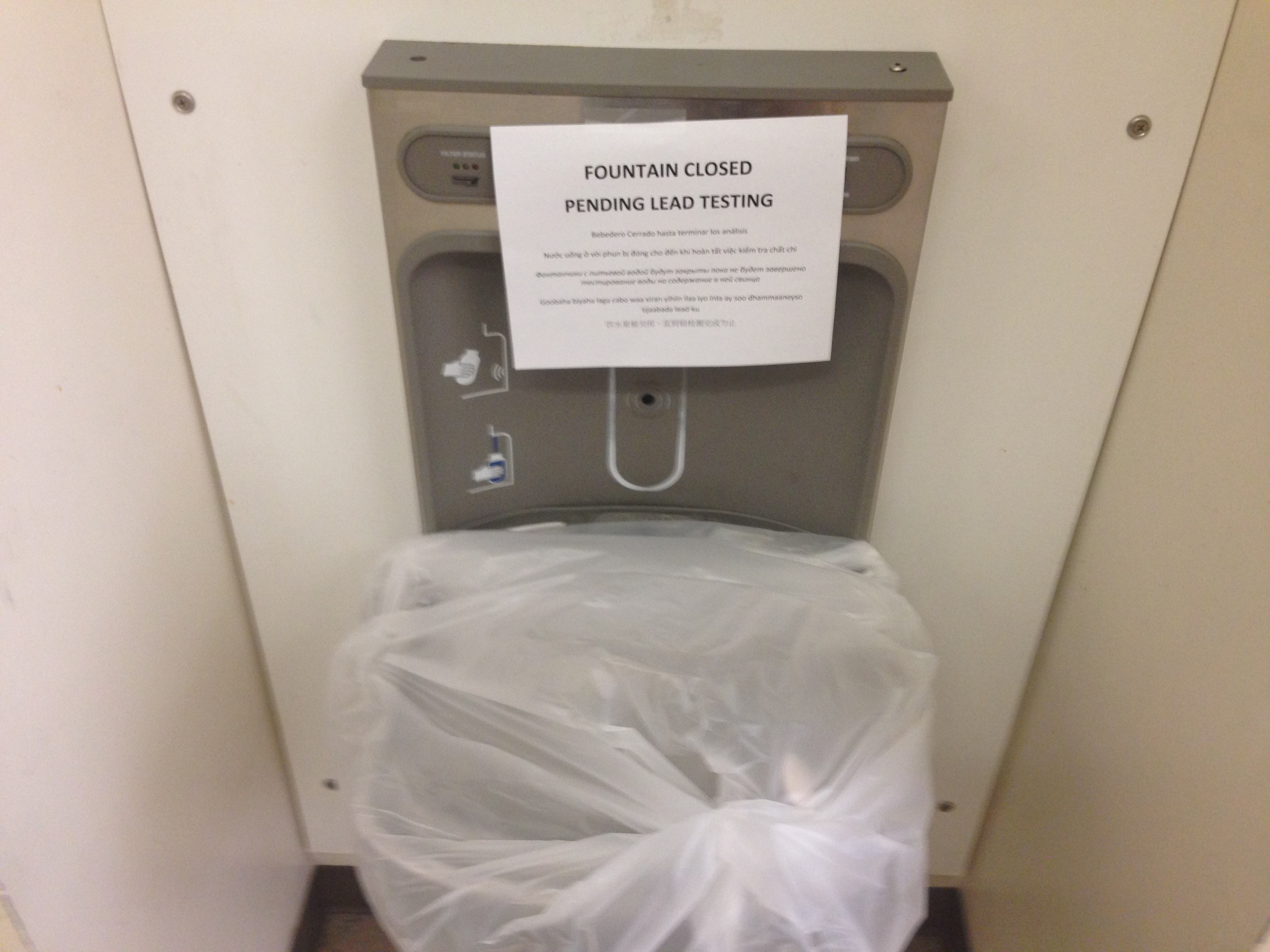 A sign on a water fountain at Jefferson High School in Portland Oregon warns that the school's water supply is being tested for lead contamination. June 2016.